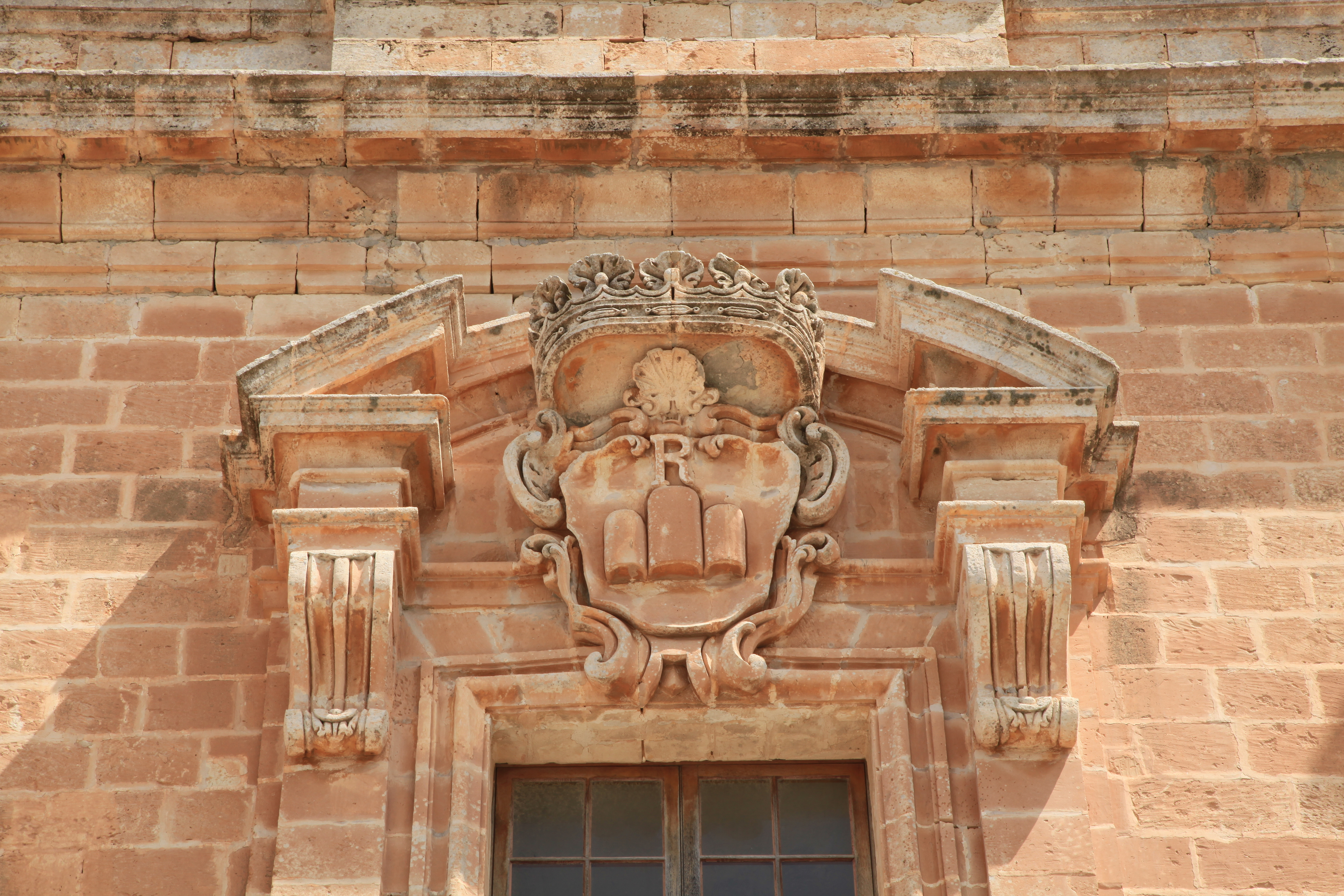 Selmun Palace at Triq Selmun in Mellieħa, Malta